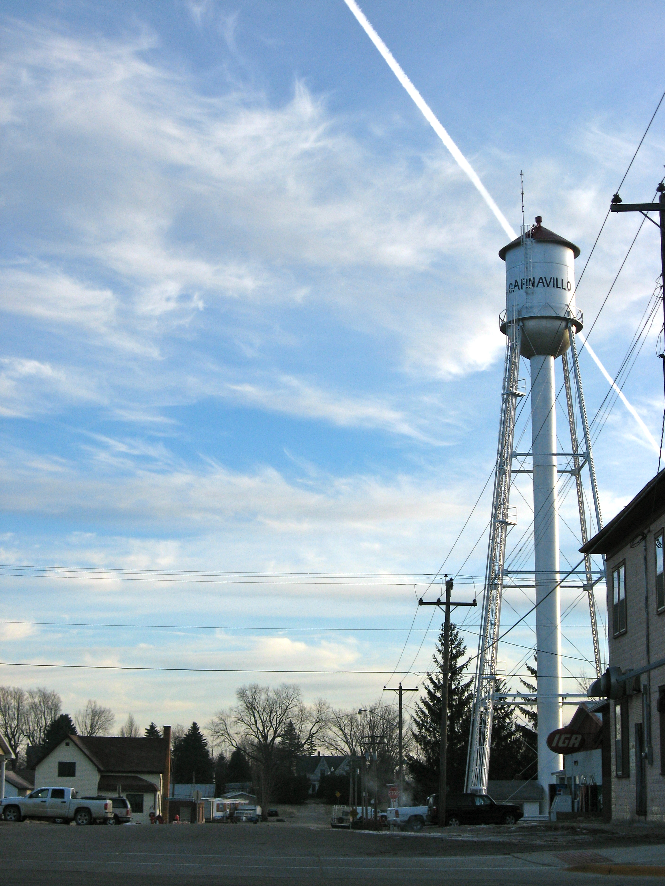 Water tower in Garnavillo, Iowa during winter, 2008